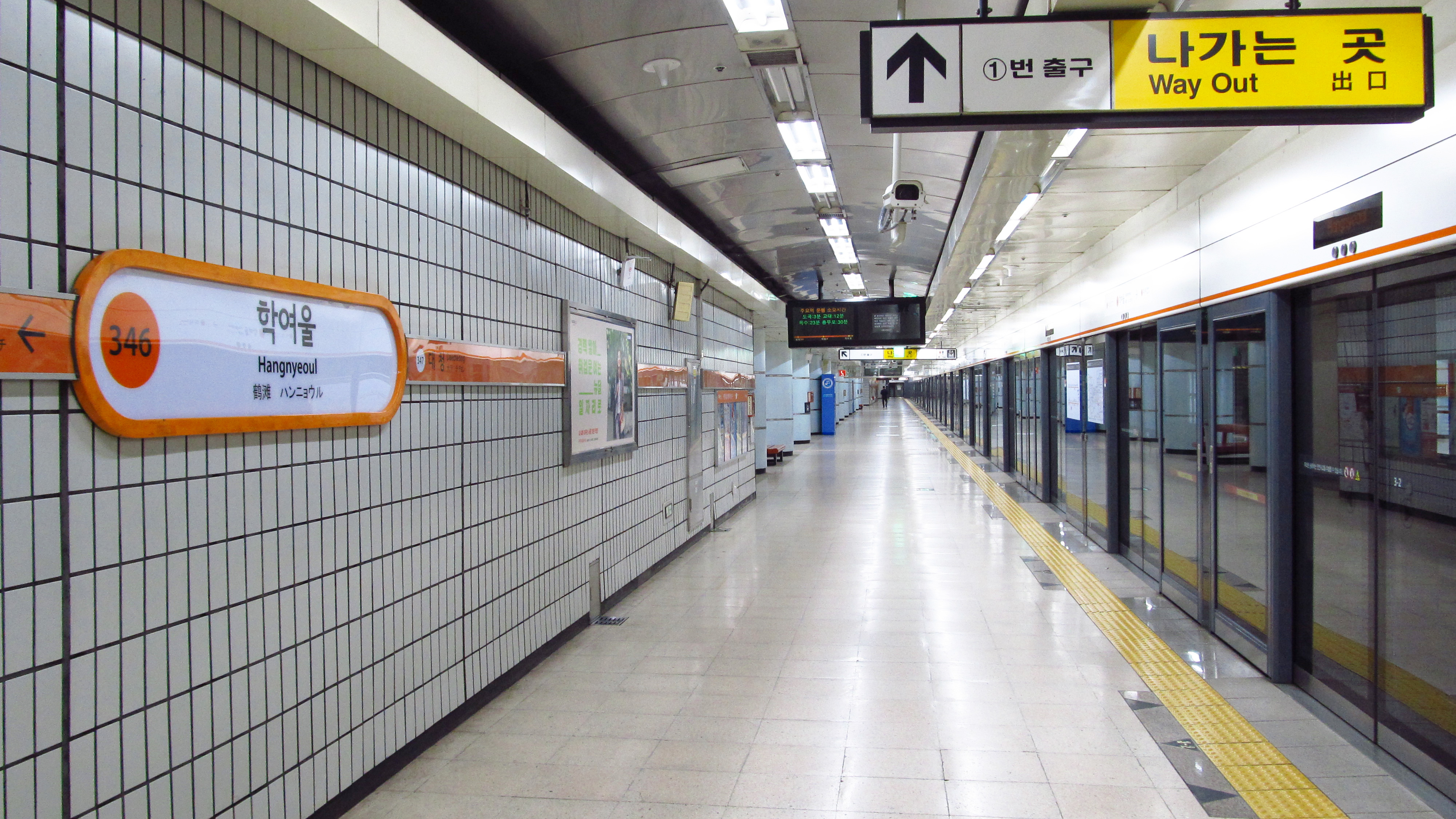 The platform at Hangnyeoul Station on Seoul Subway Line 3 in Gangnam-gu, Seoul, Republic of Korea(South Korea)